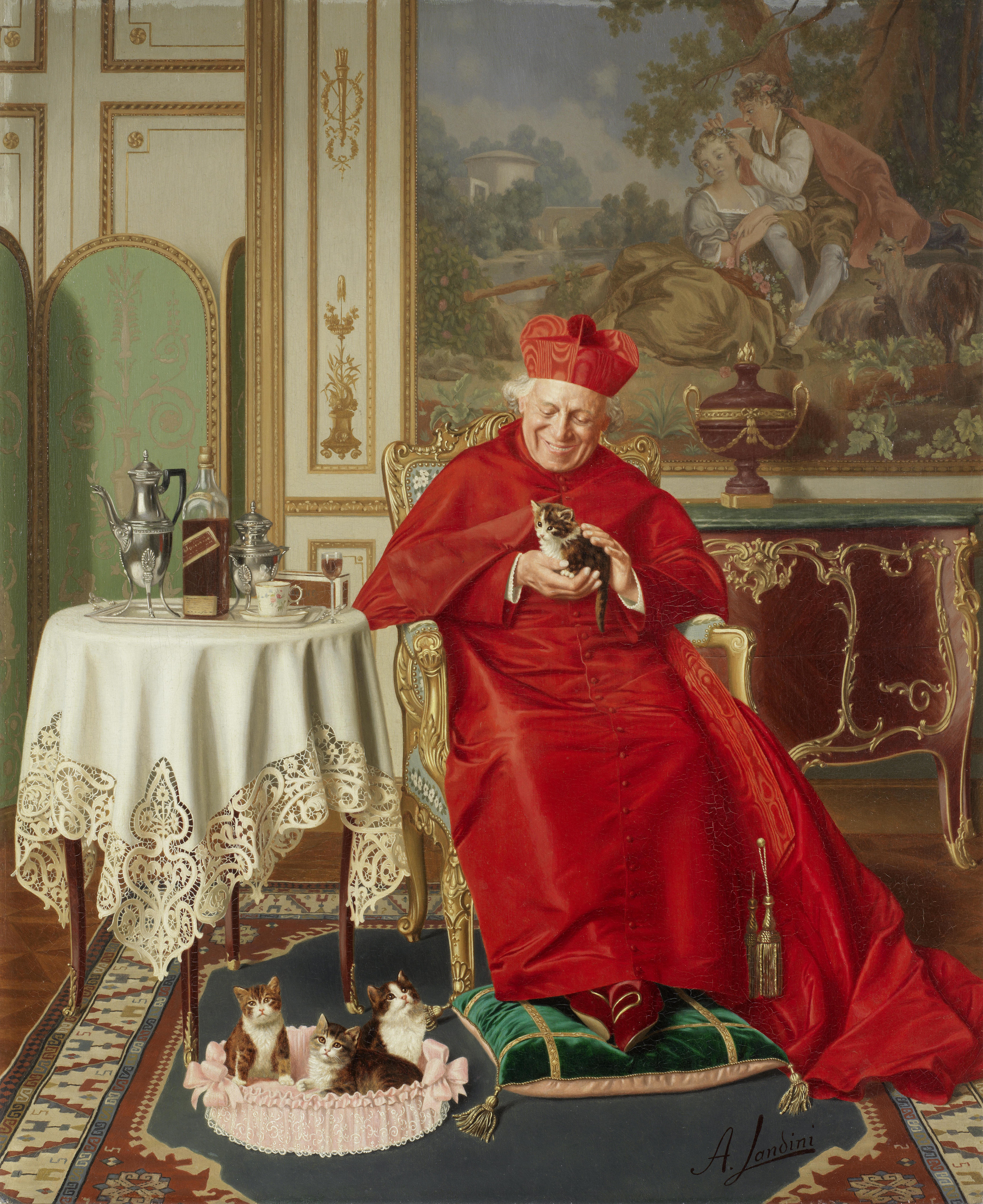 19th century Italian impressionist art.